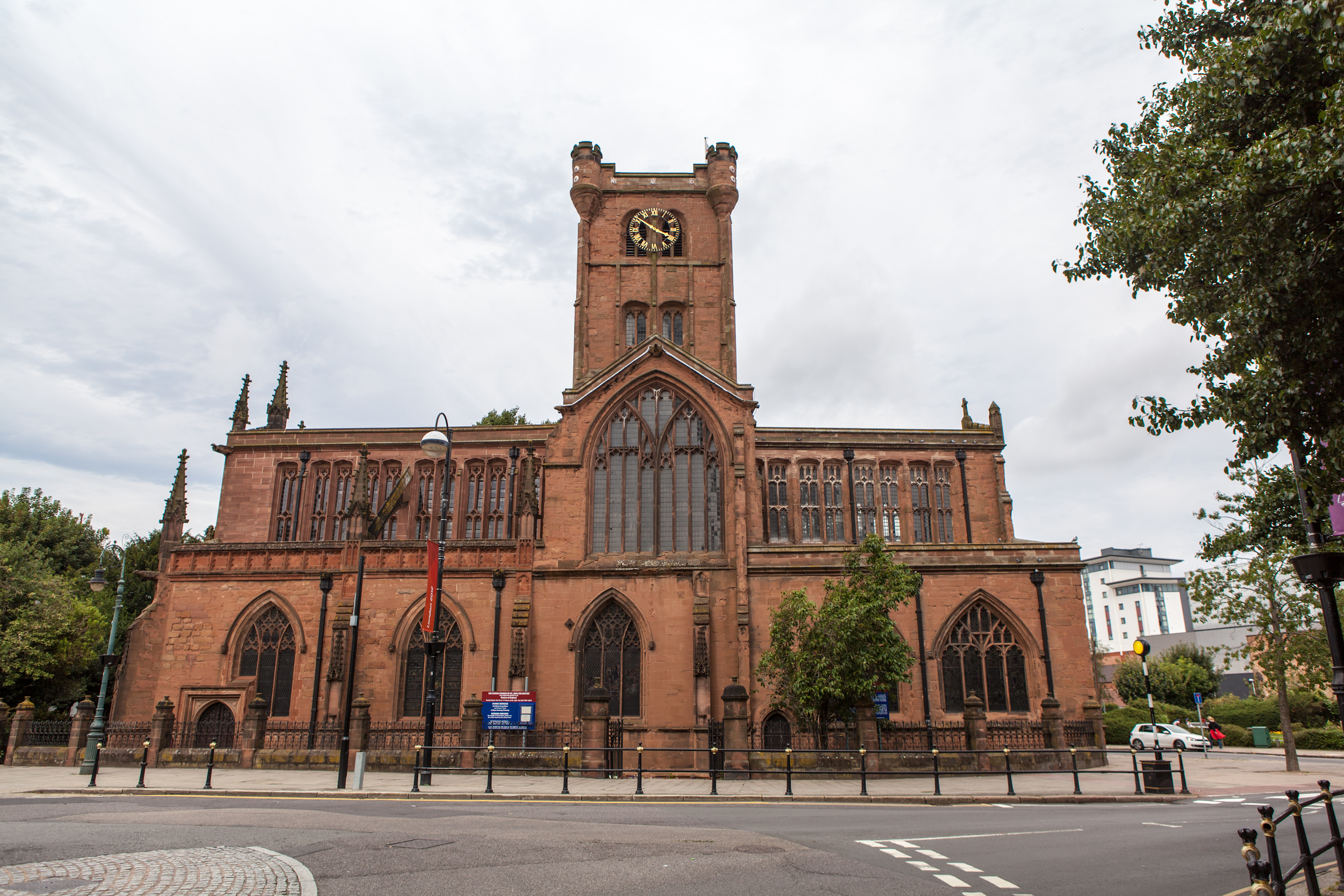 St John the Baptist's parish church, Fleet Street, Coventry, seen from the south